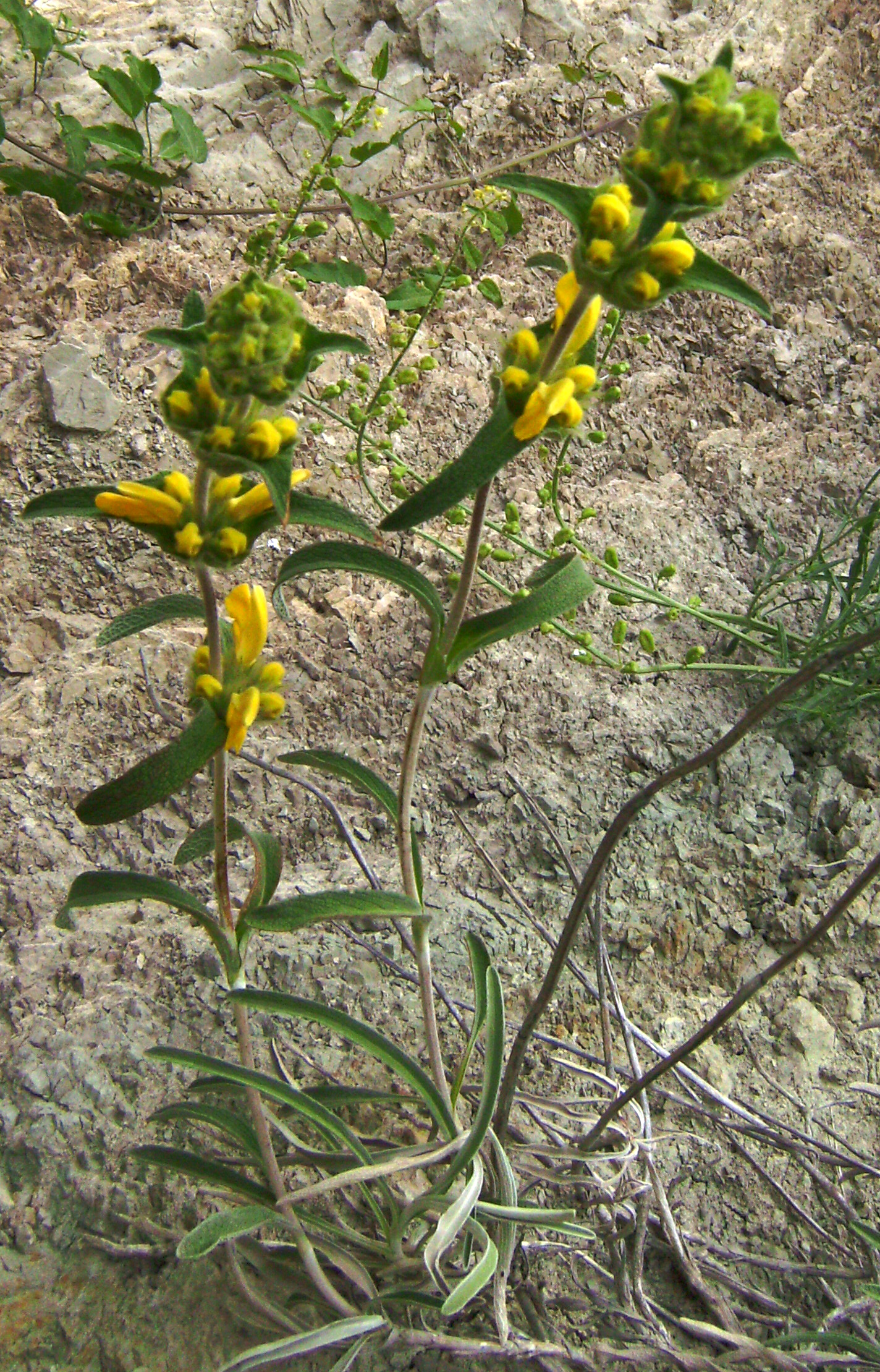 Phlomis lychnitis in the wild Castelltallat, Catalonia